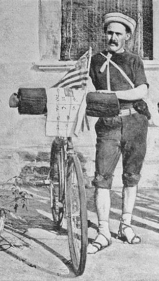 A photograph of American bicyclists during the 19th (nineteenth) century in the continent of Asia.